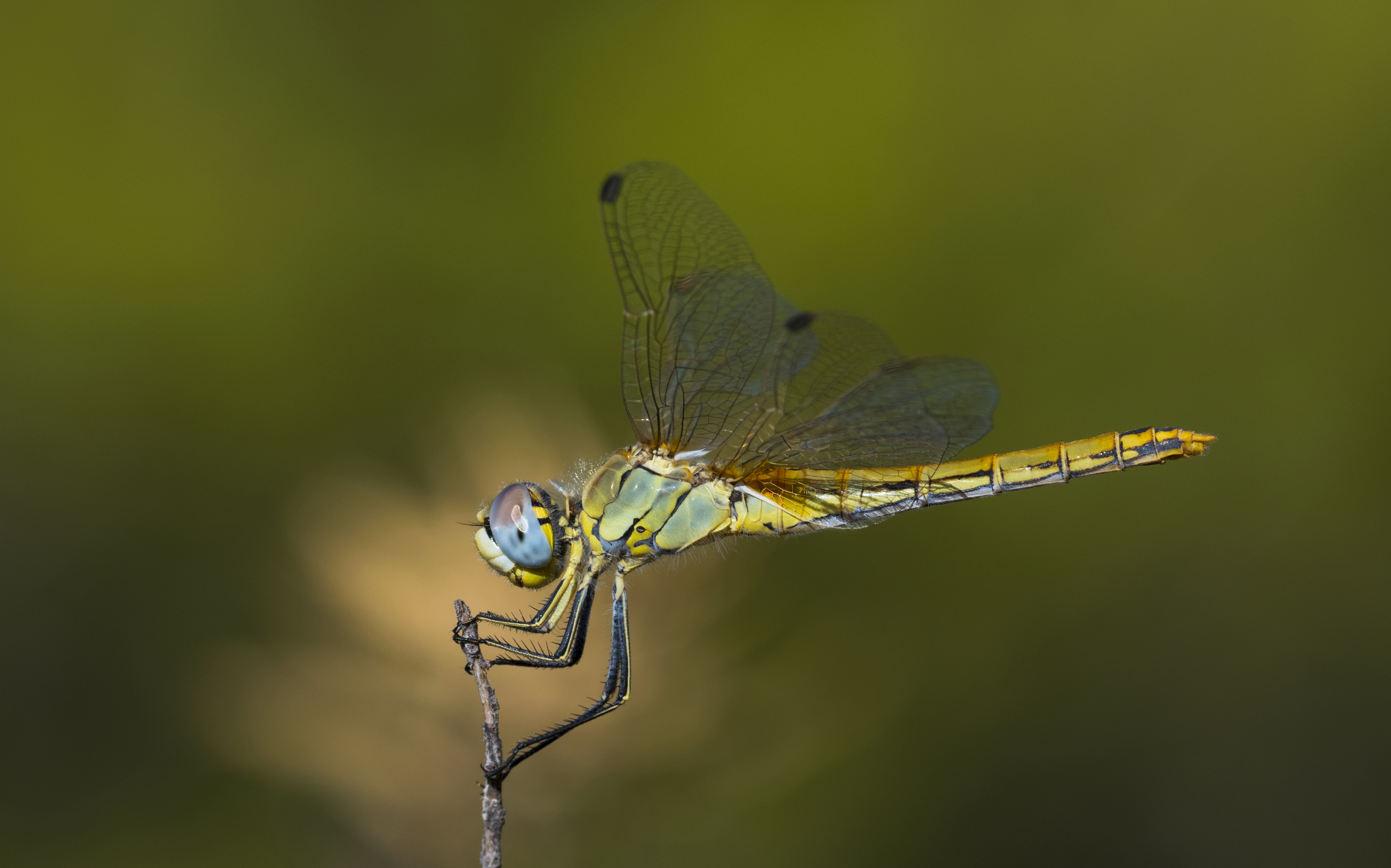 Sympetrum fonscolombii (Red-veined darter), female. Forest of Sète. Sète, Hérault, France